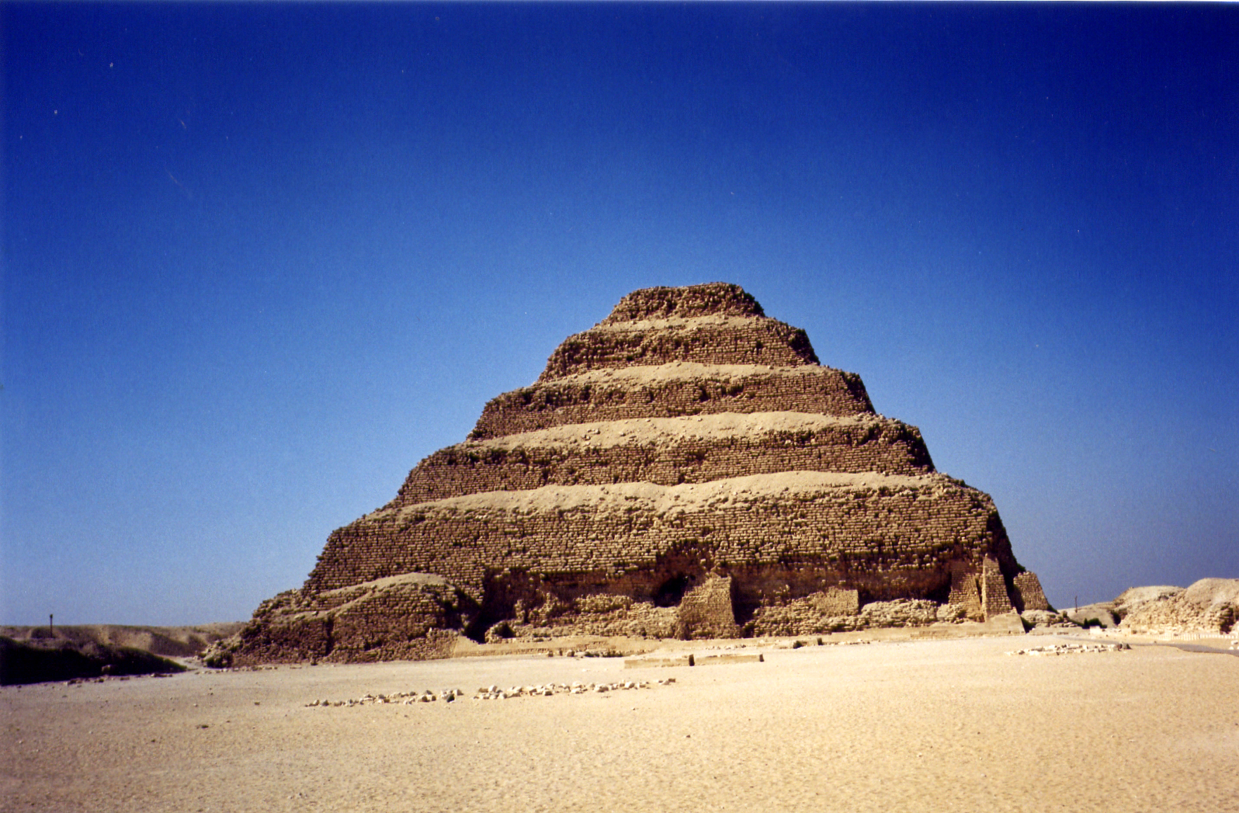 Saqqara Pyramid in Egypt.